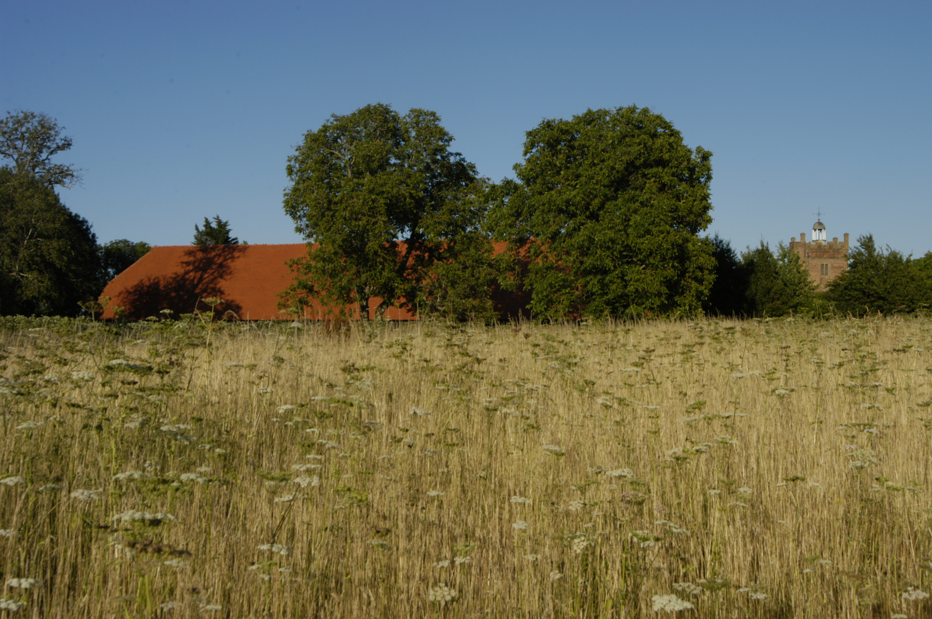 Digital photograph (by me, R. de Salis, Rodolph (talk) 10:40, 20 July 2015 (UTC)) of the Harmondsworth Great Barn, 19 July 2015, from the west, with the church tower showing on the right.